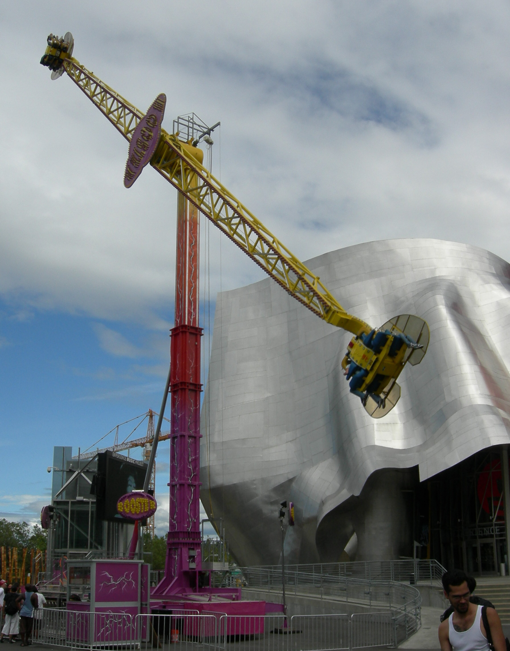 Carnival ride "The Booster" in the Seattle Center Fun Forest, and part of the Experience Music Project Building, Seattle Center, Seattle, Washington.